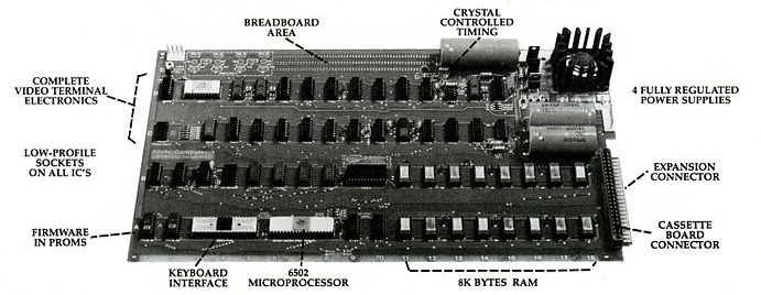 Introductory Apple 1 Computer advertisement published in the October 1976 issue of Interface Age magazine. This is bottom of the advertisement for show the parts of Apple I.